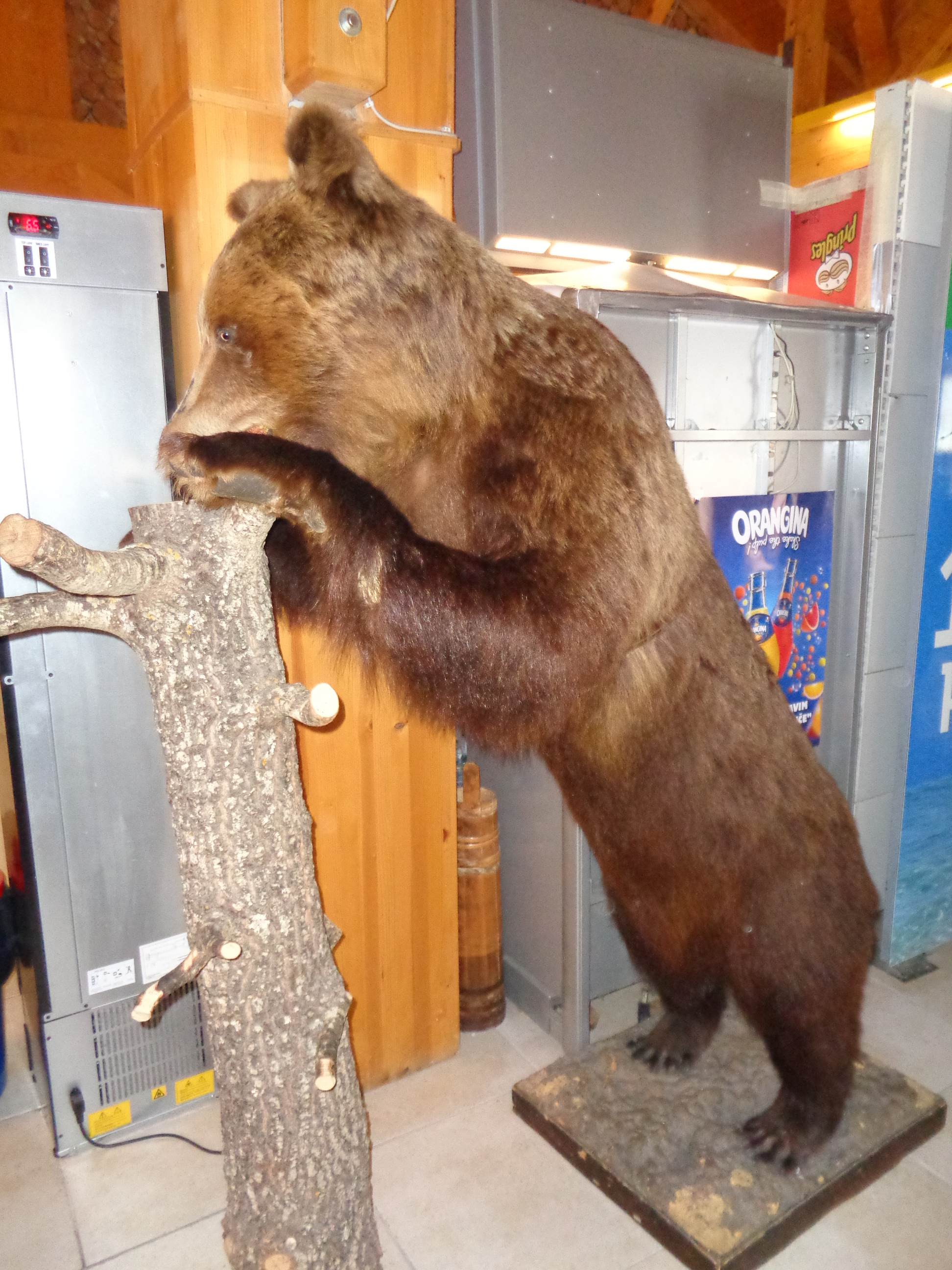 Standing stuffed brown bear in the Zir rest stop at A1 Highway in Lika, Croatia